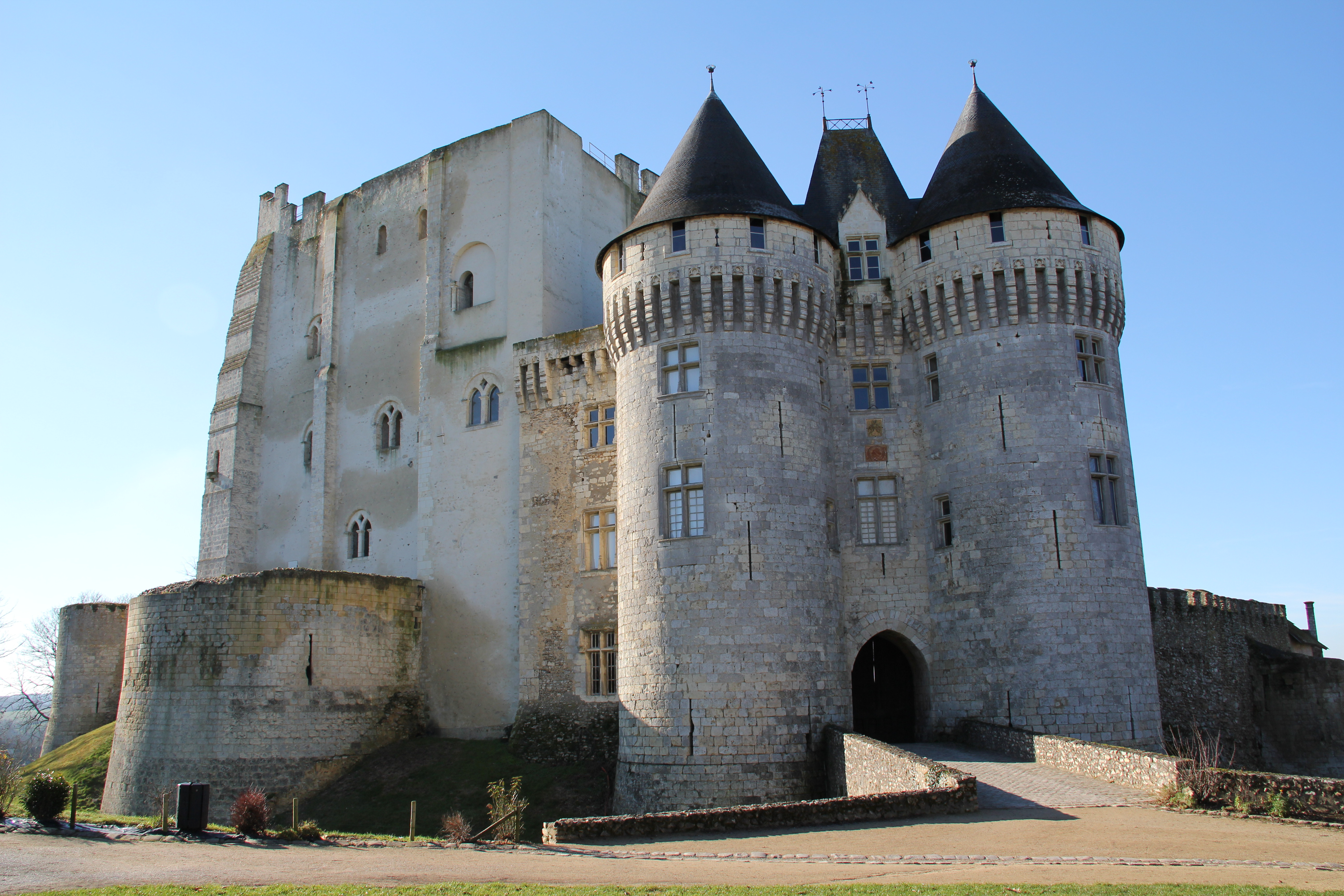 Saint-John's castle, in Nogent-le-Rotrou, Eure-et-Loir, France.